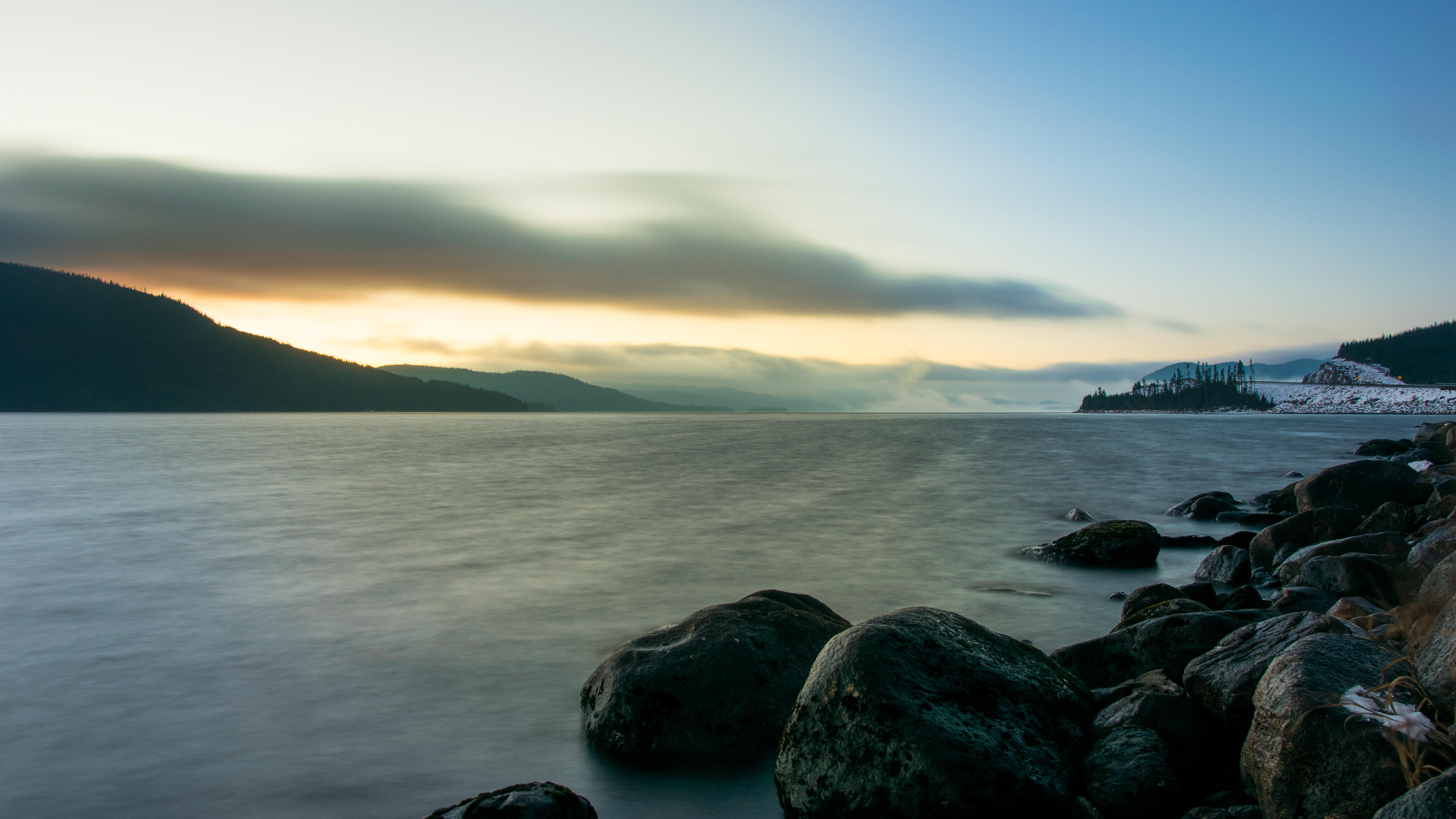 A long-exposure photography of the north part of the Jacques-Cartier lake at the sunrise, Québec, Canada.